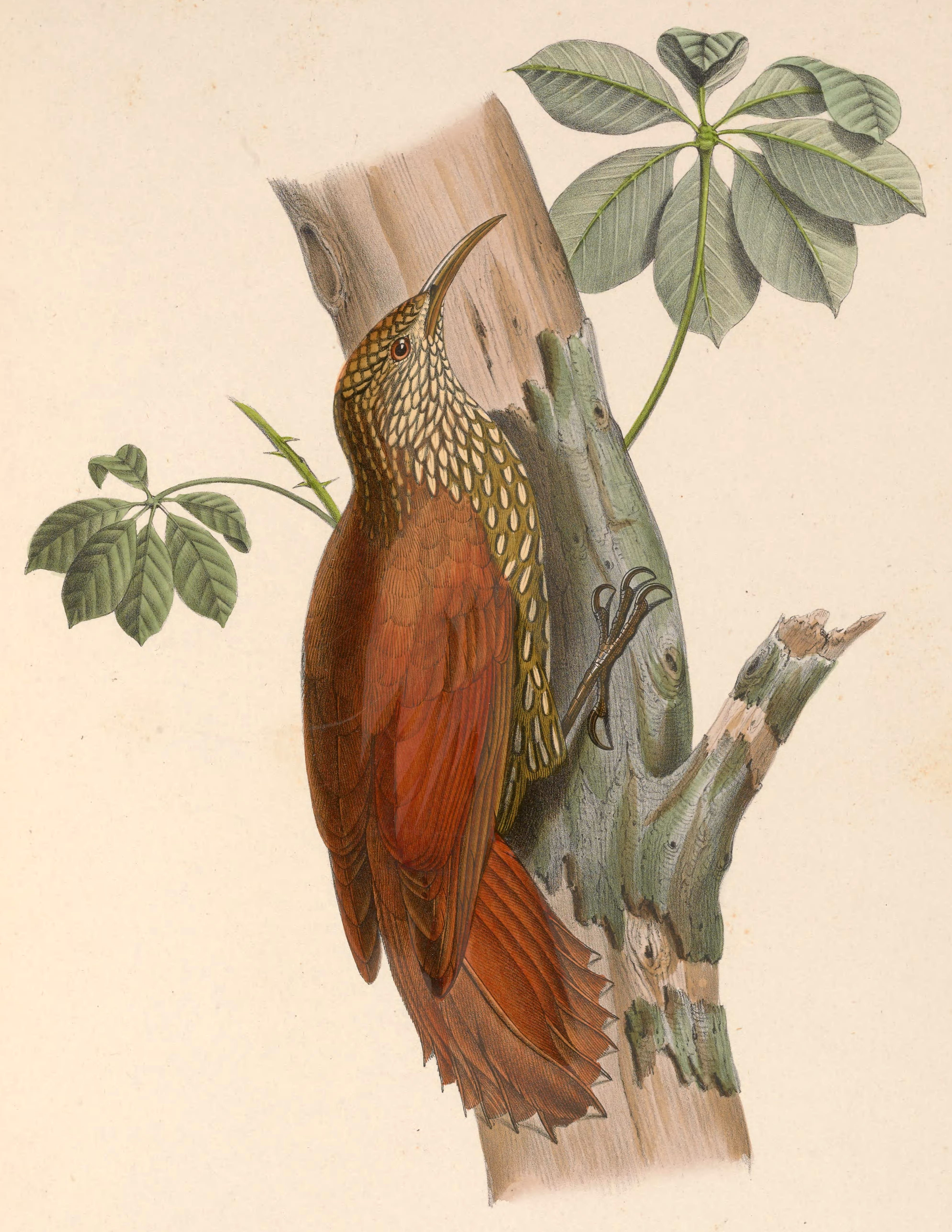 Dendrocolaptes lacrymiger = Lepidocolaptes lacrymiger (Montane Woodcreeper)